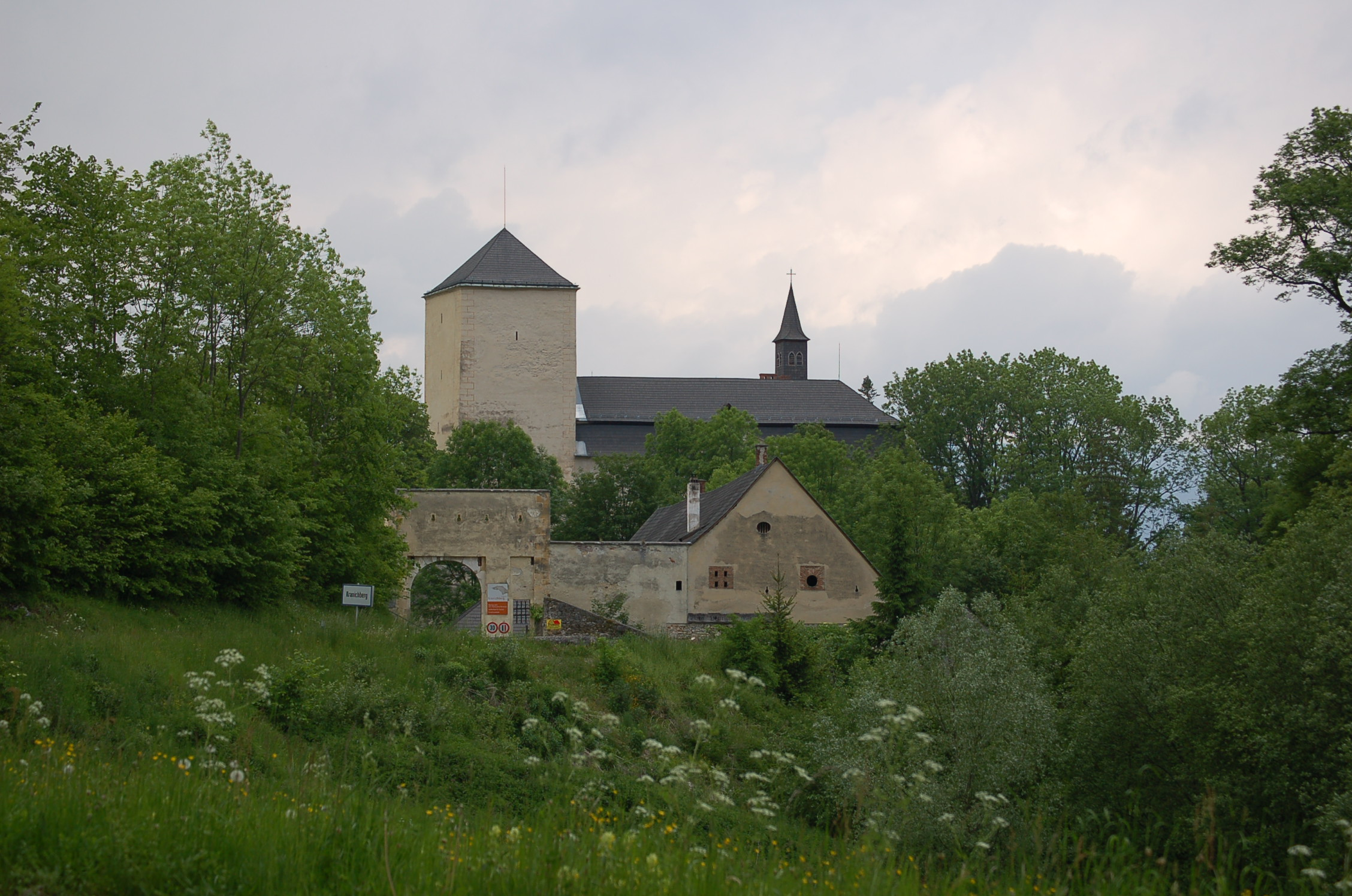 Kranichberg castle, municipality Kirchberg am Wechsel, Lower Austria